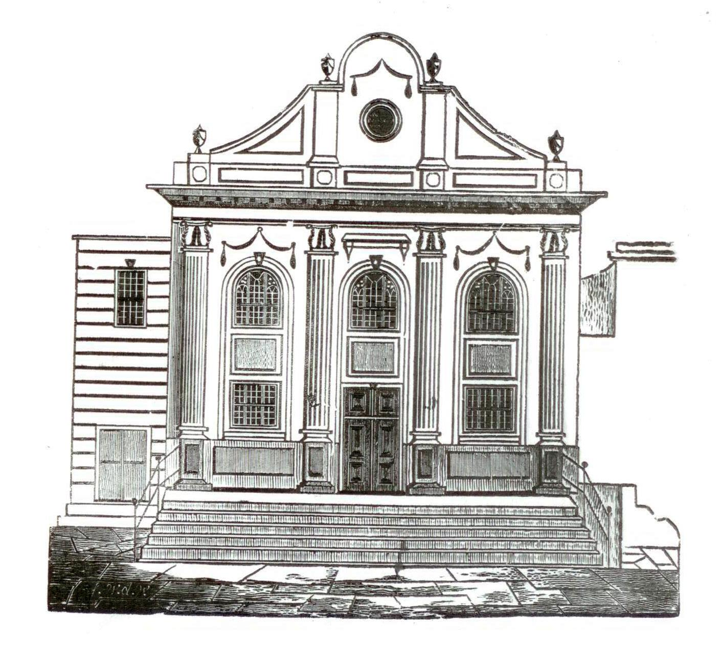 It was produced by Frederick Willem de Wet who was a clerk at the Cape Town police station at about 1830. He produced the images of some of Cape Town’s best known buildings at the time on engraved wooden printing blocks. A copy of his print of the S.A. Sendinggestig appeared in Suasso de Lime’s Cape Almanac of 1841. The restoration architect could therefore recreate the building’s original façade during its restoration.